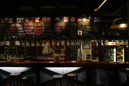 beer restaurant Panimoravintola Plevna, Tampere, Tampere.